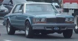 1975-1977 Cadillac Seville photographed in Montreal, Quebec, Canada.